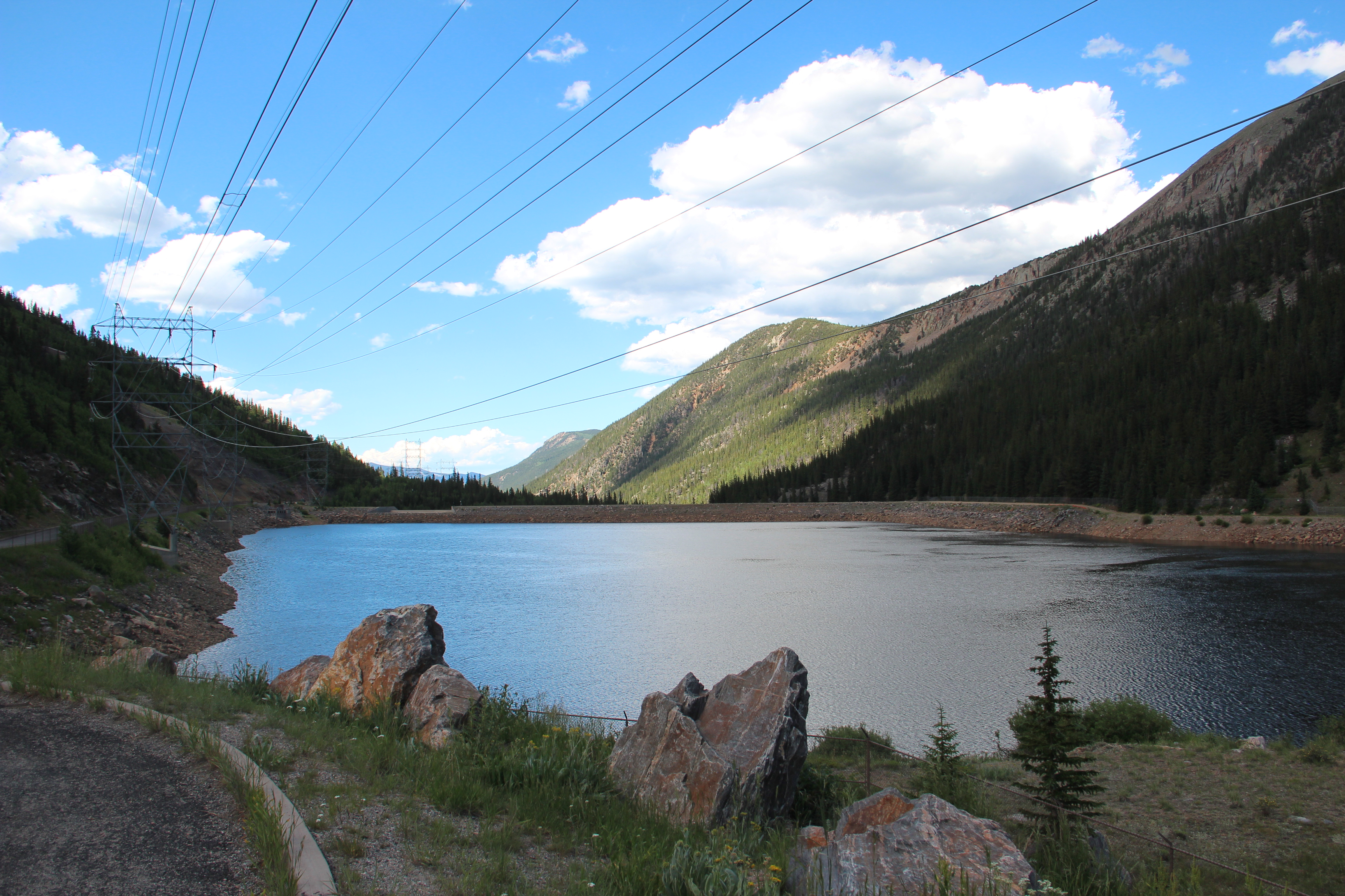 Cabin Creek Hydroelectric Reservoir